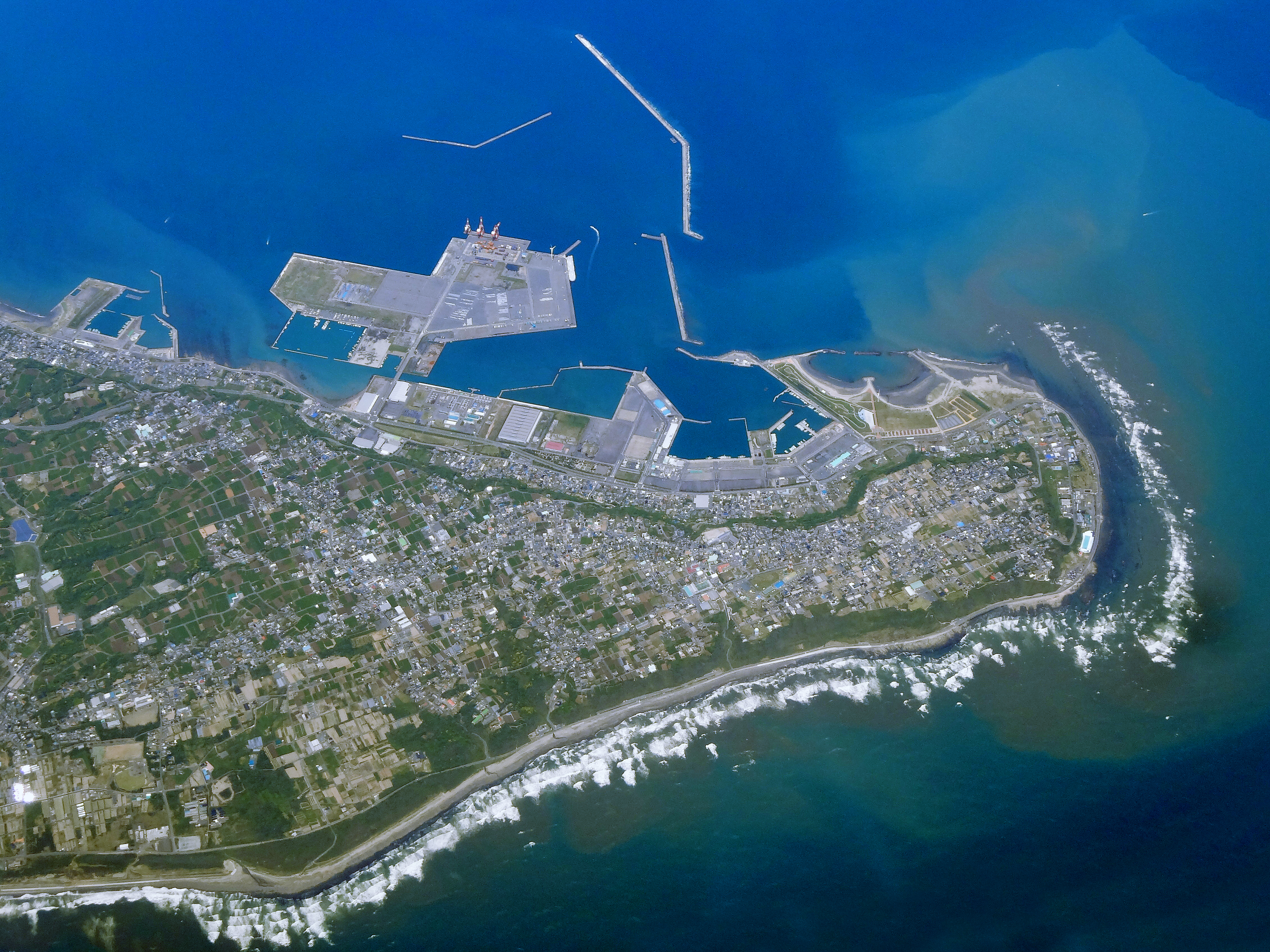 Cape Omaezaki from the sky in Omaezaki City, Shizuoka prefecture, Japan.